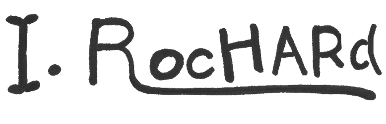 Irénée Rochard's signature